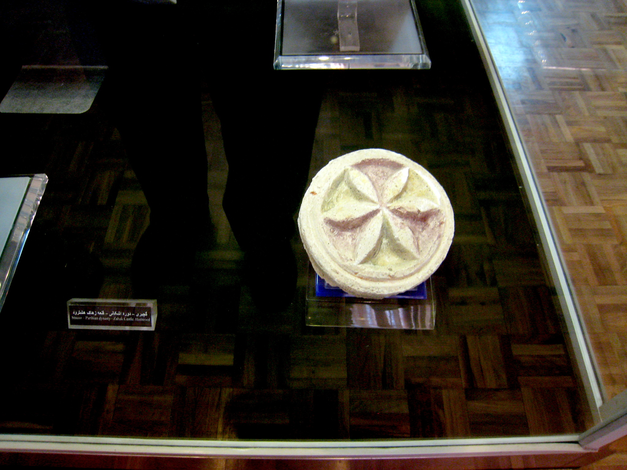 Stucco , Parthian dynasty , Zahhak Castle , Hashtrud , shown in Azerbaijan Museum , Tabriz , Iran . The yellow and red color is still visible on artifact.